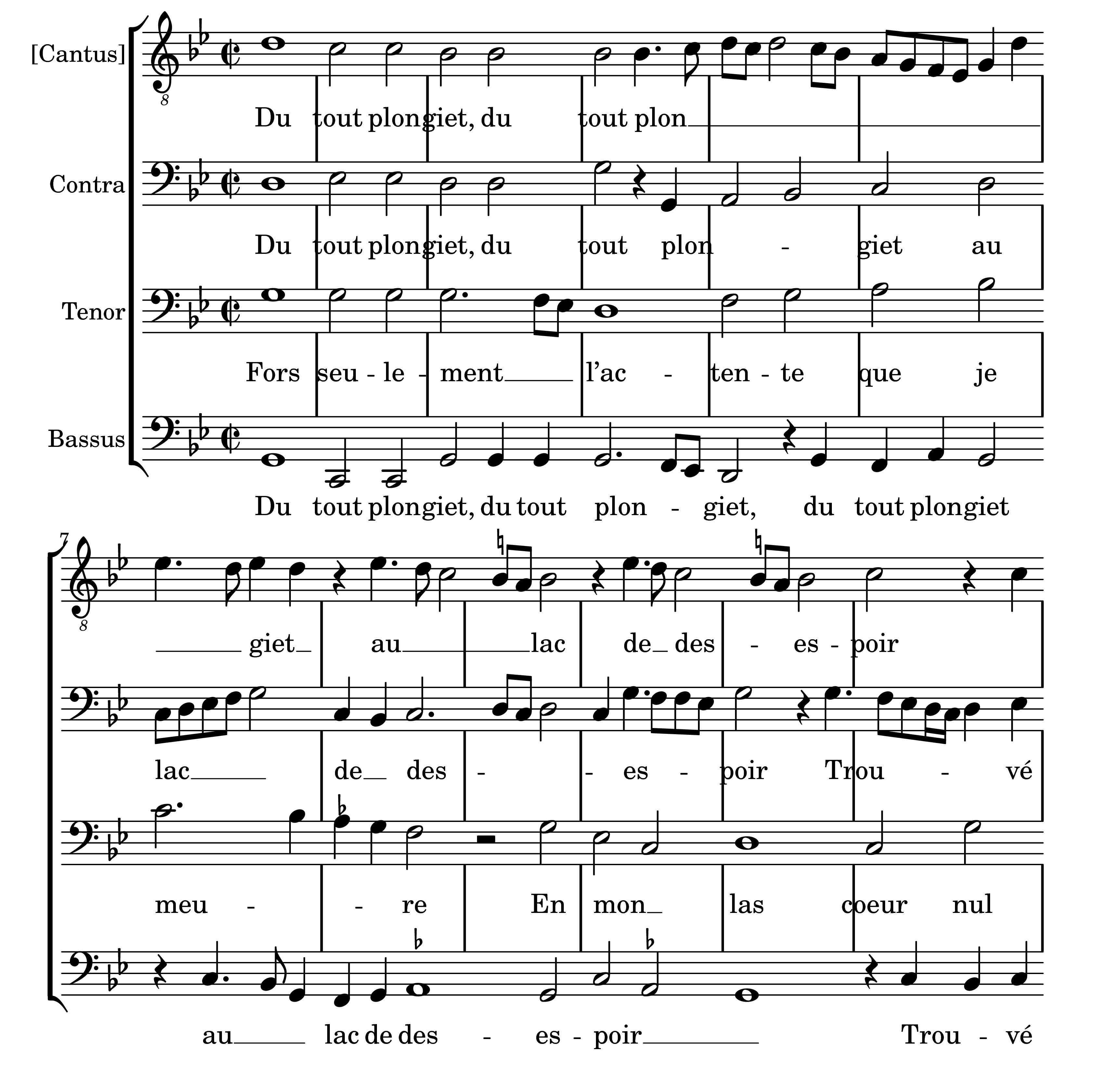 Incipit of "Du tout plongiet – Fors seulement", 4-voice chanson by Antoine Brumel (c.1460–1512). Typeset with Lilypond